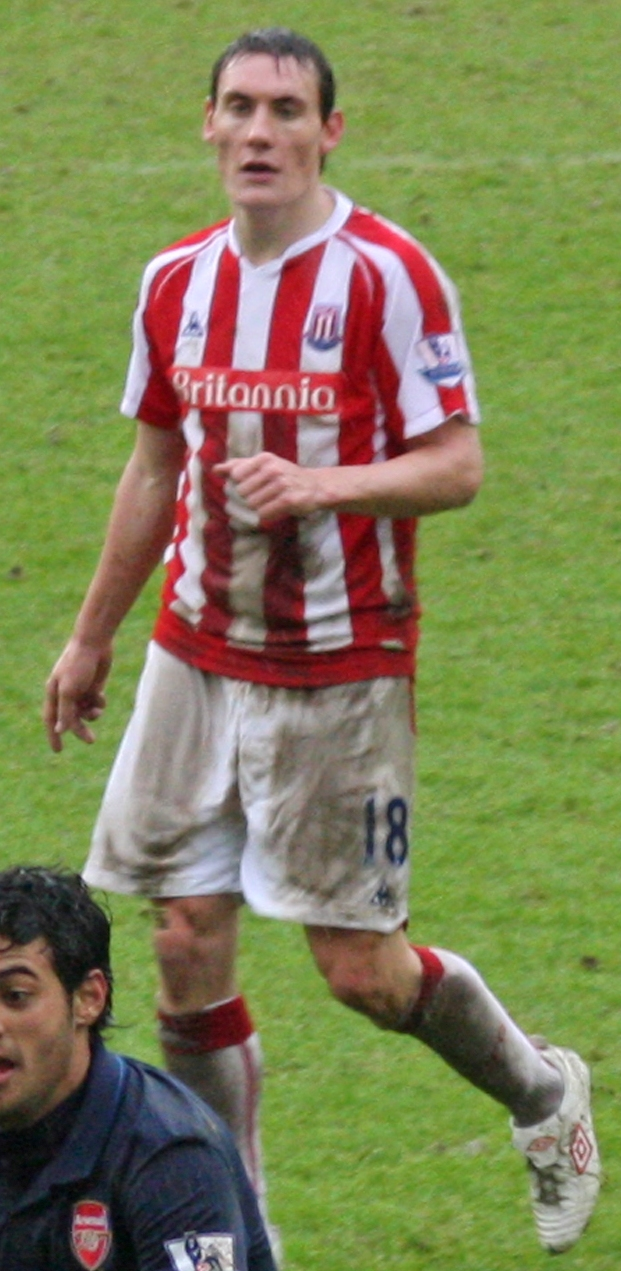 Dean Whitehead at a match between Stoke City F.C. and Arsenal F.C.